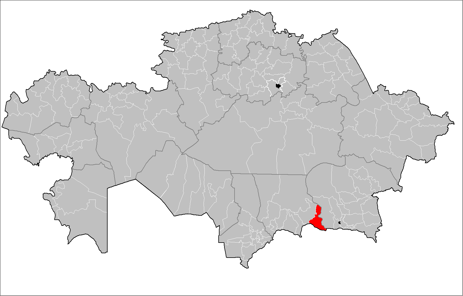 Map of the rayons of Kazakhstan. Created by Rarelibra 16:49, 3 August 2007 (UTC) for public domain use, using MapInfo Professional v8.5 and various mapping resources.